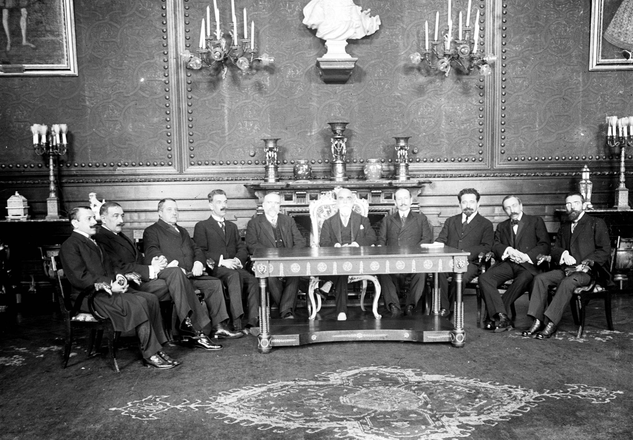 The Portuguese President of the Republic, Bernardino Machado (centre), receives the "Government of the Sacred Union" (so called because of the political truce of the two largest parties, due to World War One).